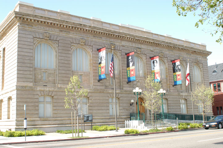 image of AAMLO - The African American Museum and Library at Oakland